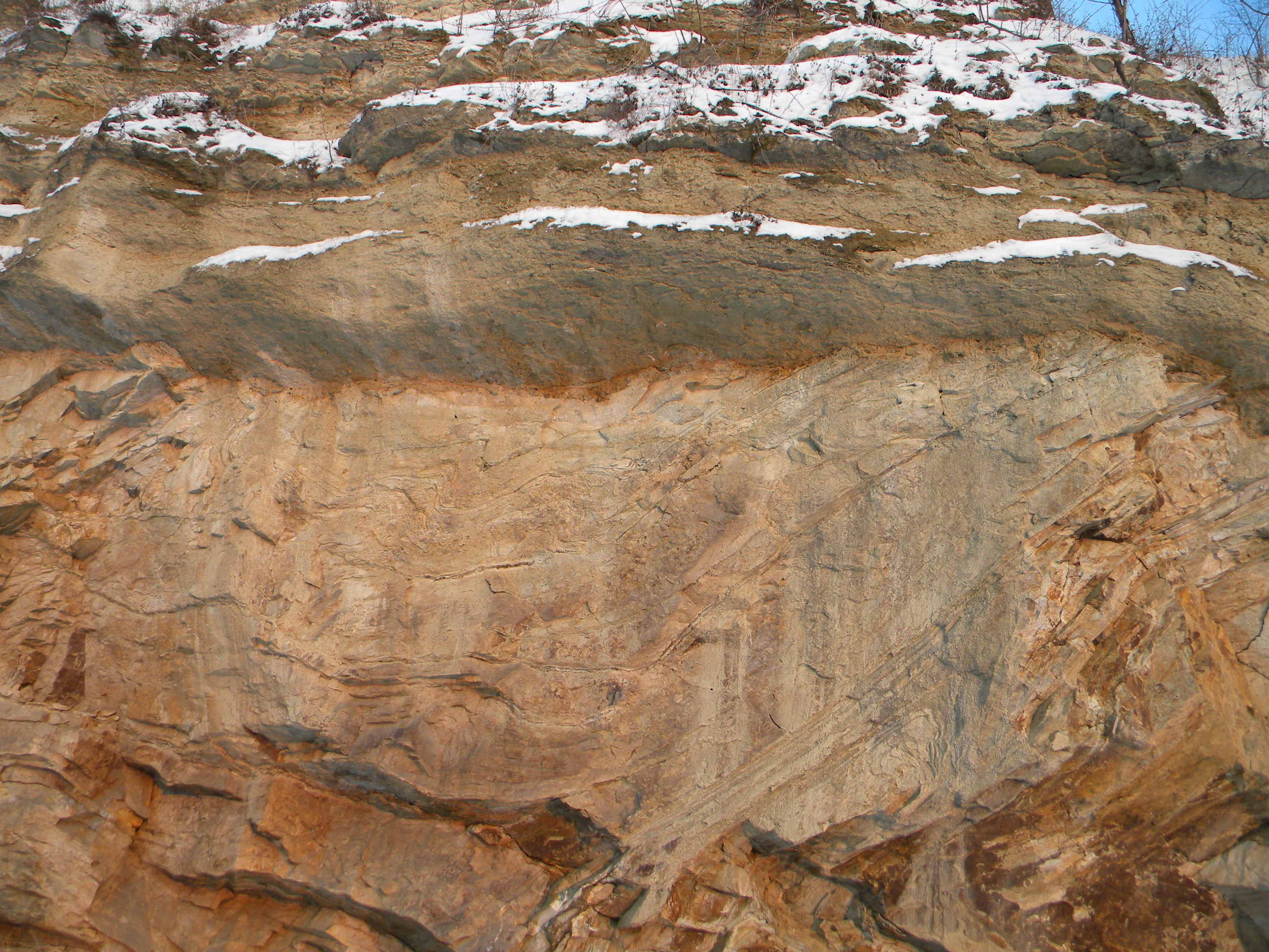 Angular unconformity between Paleozoic paragneiss of the Malin Unit of the Kutna Hora Crystalline Complex (KHCC, Moldanubian Zone of the Bohemian Massif) and Cretaceous conglomerate and sandstone of the Bohemian Cretaceous Basin (BCB). Prachovna quarry, southern outskirts of Kutná Hora, Czech Republic.